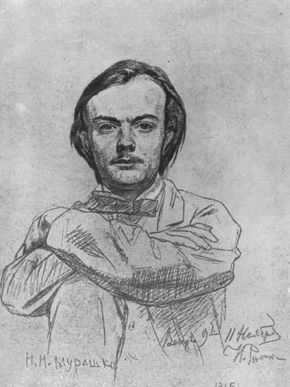 Portrait of the painter Nicholas Murashko by Repin